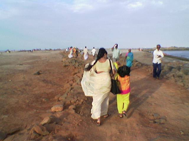 You can notice the damage to the beach after the Asian tsunami 2004!